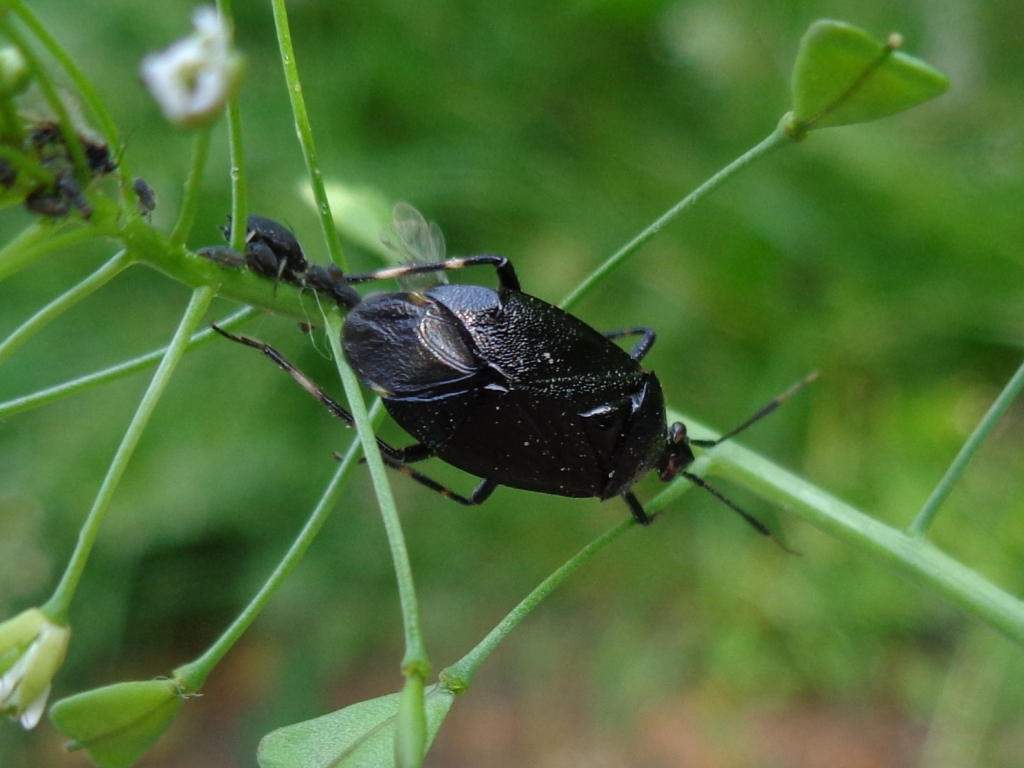 Deraeocoris scutellaris. Found in Riga town, Latvia